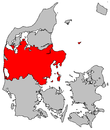 Location map of Region Midtjylland in Denmark. Created by User:Valentinian based on Image:Map DK Odense.PNG created by User:Michiel1972 who released the latter image under PD.